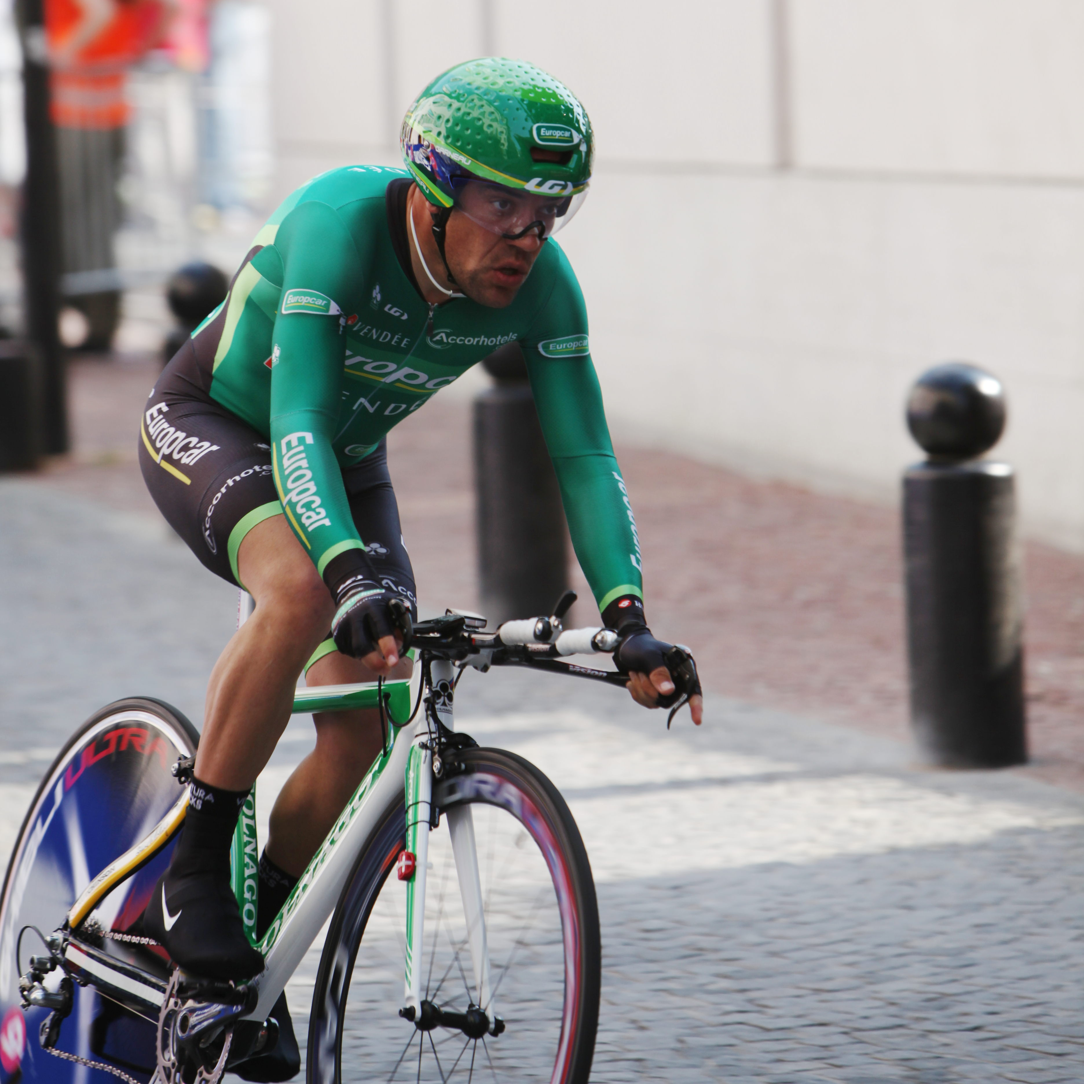 Anthony Charteau at the prologue of the Tour de Romandie 2011